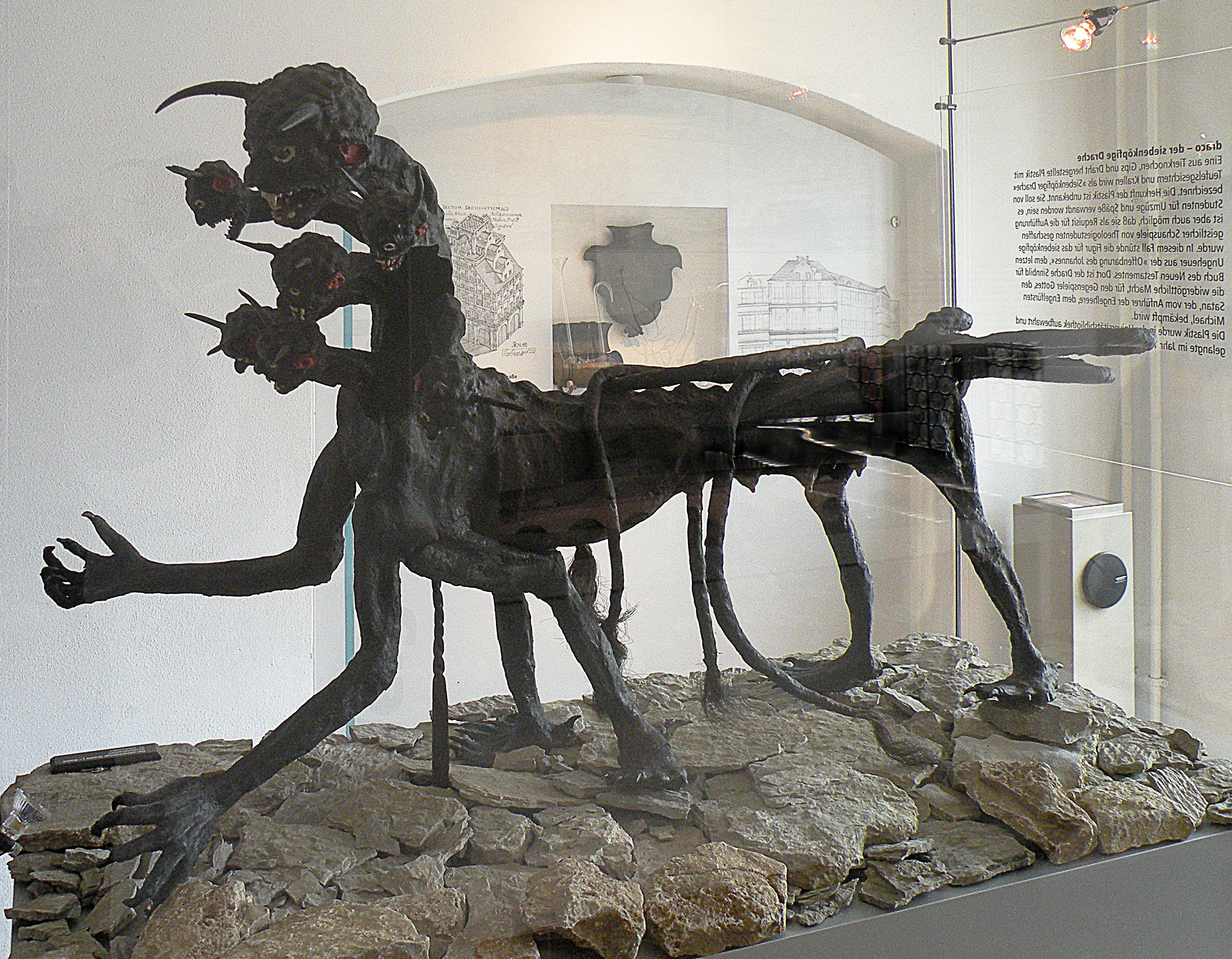 Draco, der siebenköpfige Drache, im Stadtmuseum Jena